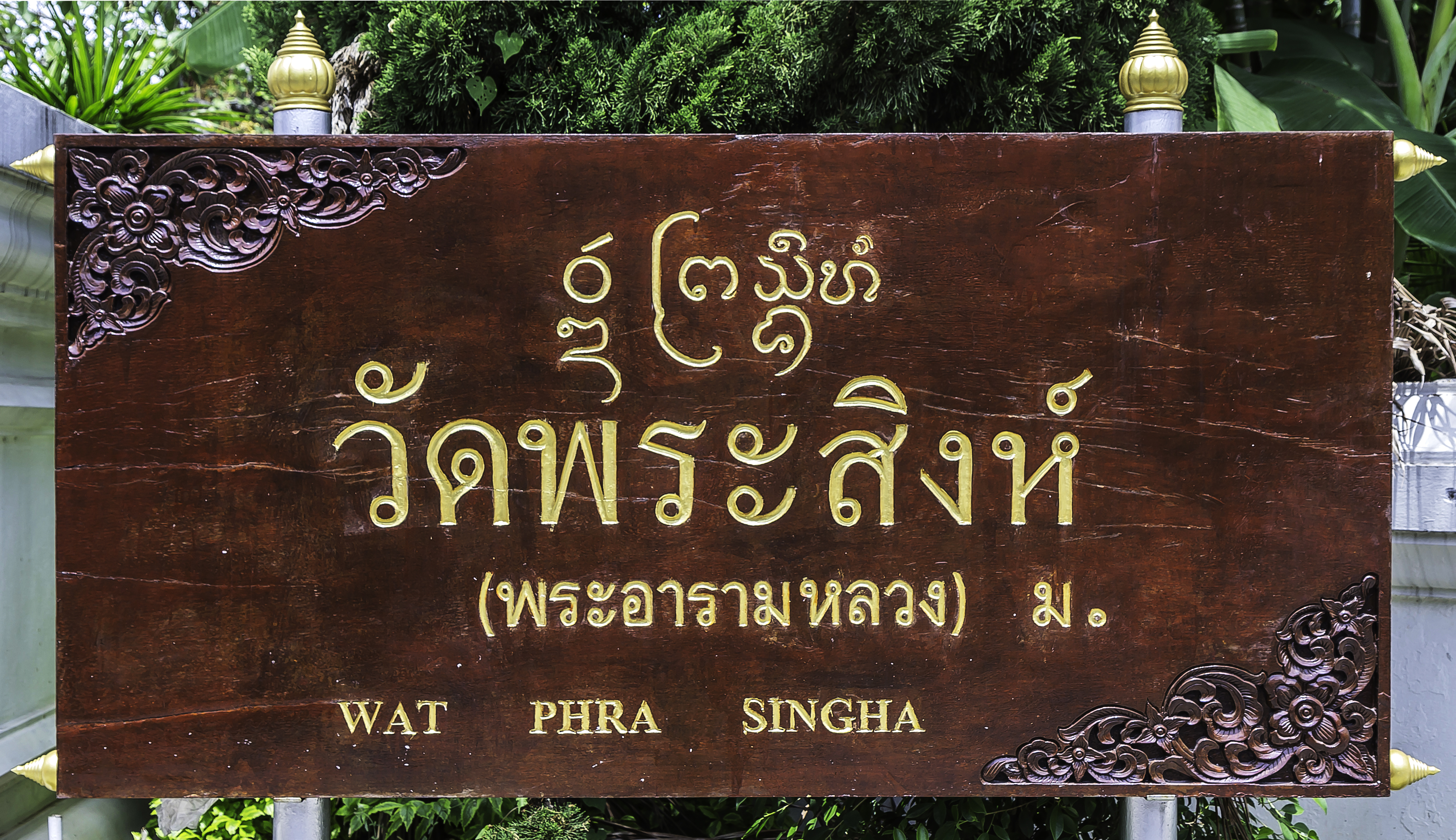 Information board at the east gate of Wat Phra Sing, Tha Luang Road, Mueang Chiang Rai District, Chiang Rai Province, Thailand